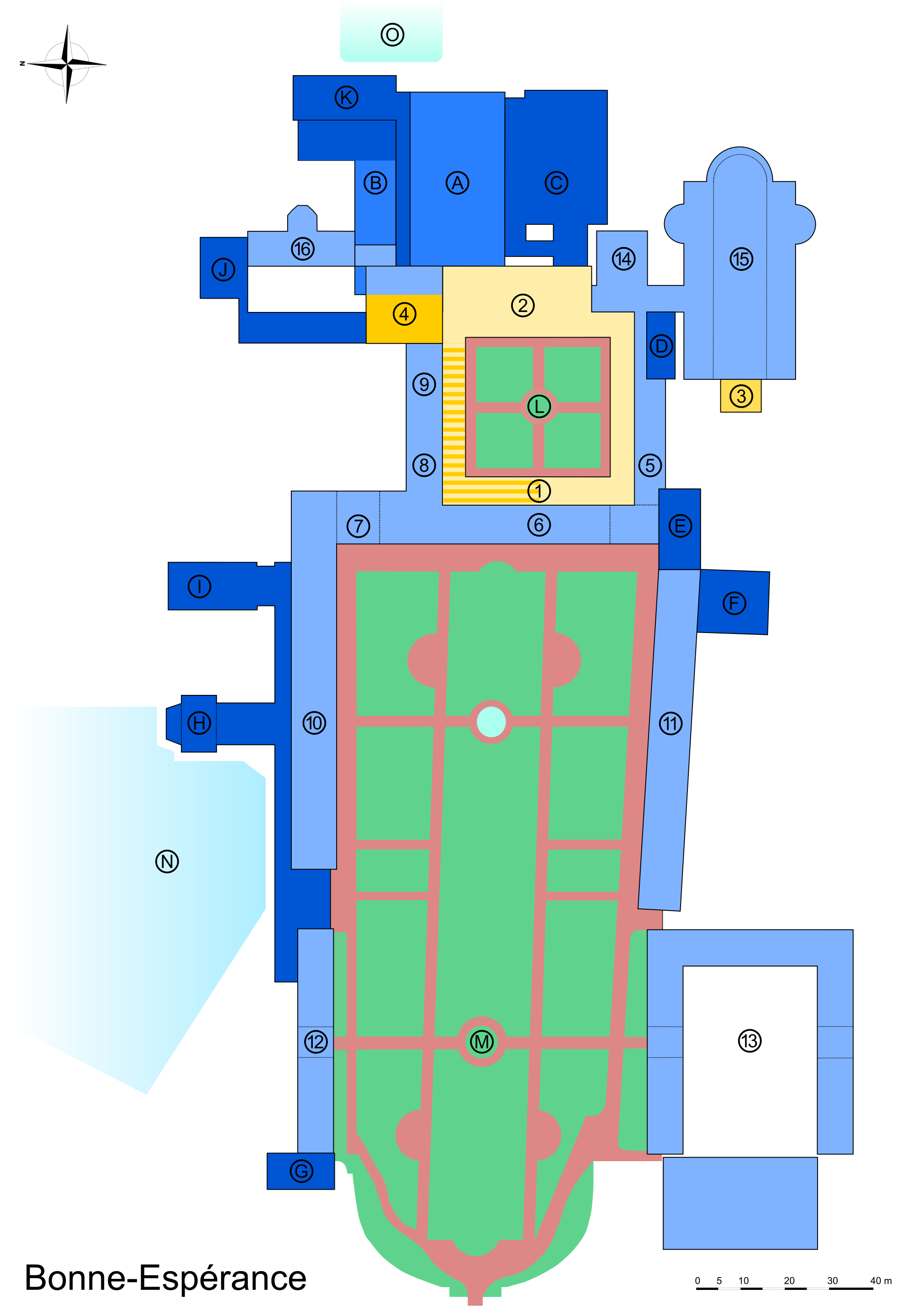 general map of Bonne-Espérance Abbey (literally Abbey of Good Hope) in 2020, each colour referring to the century during which the building or the part of a building was made: 13th century 15th century 16th century 18th century 19th century 20th century